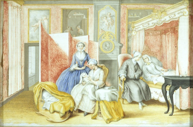 Joseph II (1741-90) at the bedside of his wife Isabella of Parma following the birth of their daughter Maria Theresa (1762-1770), 1762 (gouache)